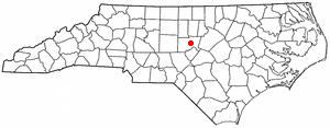 Category:North Carolina Dot Maps